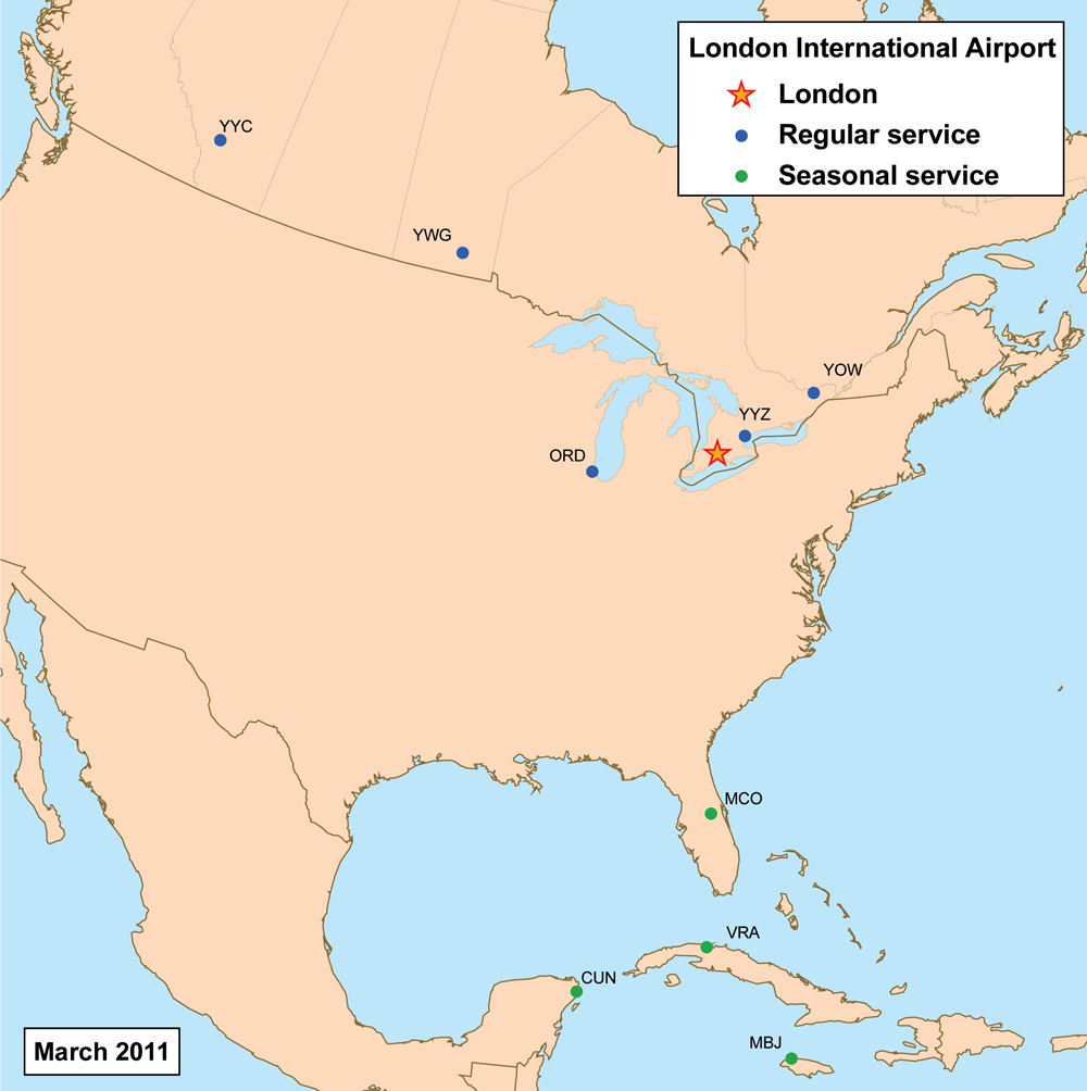 This is a route map for London International Airport as of May 2009. Map is an Azimuthal equidistant projection centered on the airport so straight lines from London, Canada are along great circle routes. Data source.